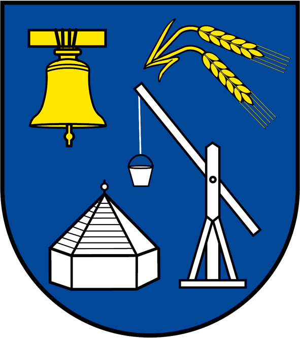 Coat of arms of Raversbeuren